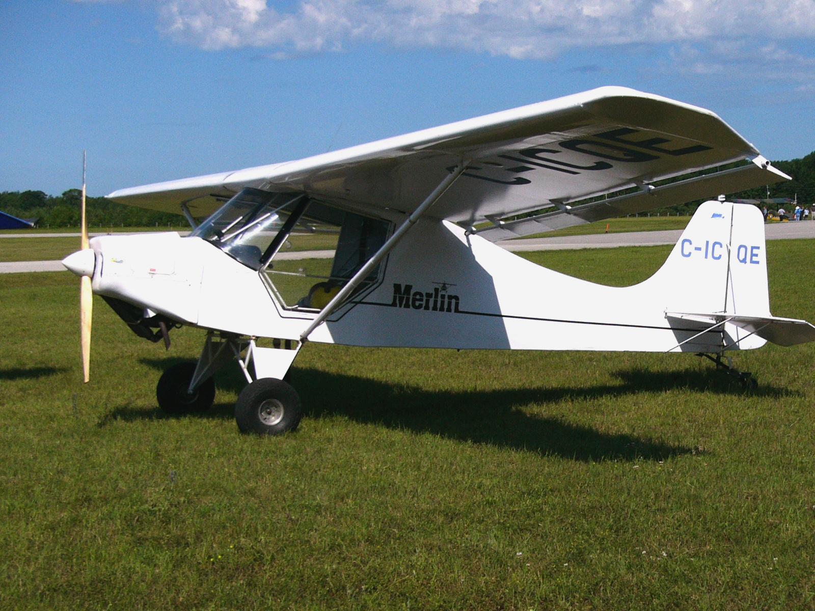 Macair Merlin GT at the Midland Ontario Fly-in